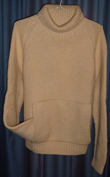 Seaman's jumper, hand knitted from New Zealand greasy wool. Modelled on the seaman's jumper traditionally worn by sailors. (Modern version is the Navy "Wooly Pully".) Note: roll neck to keep neck warm front pocket for keeping hands warn